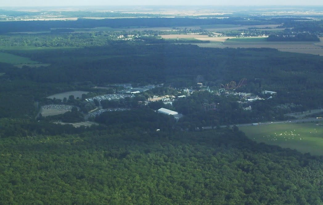 Parc astérix from sky near Paris, France.